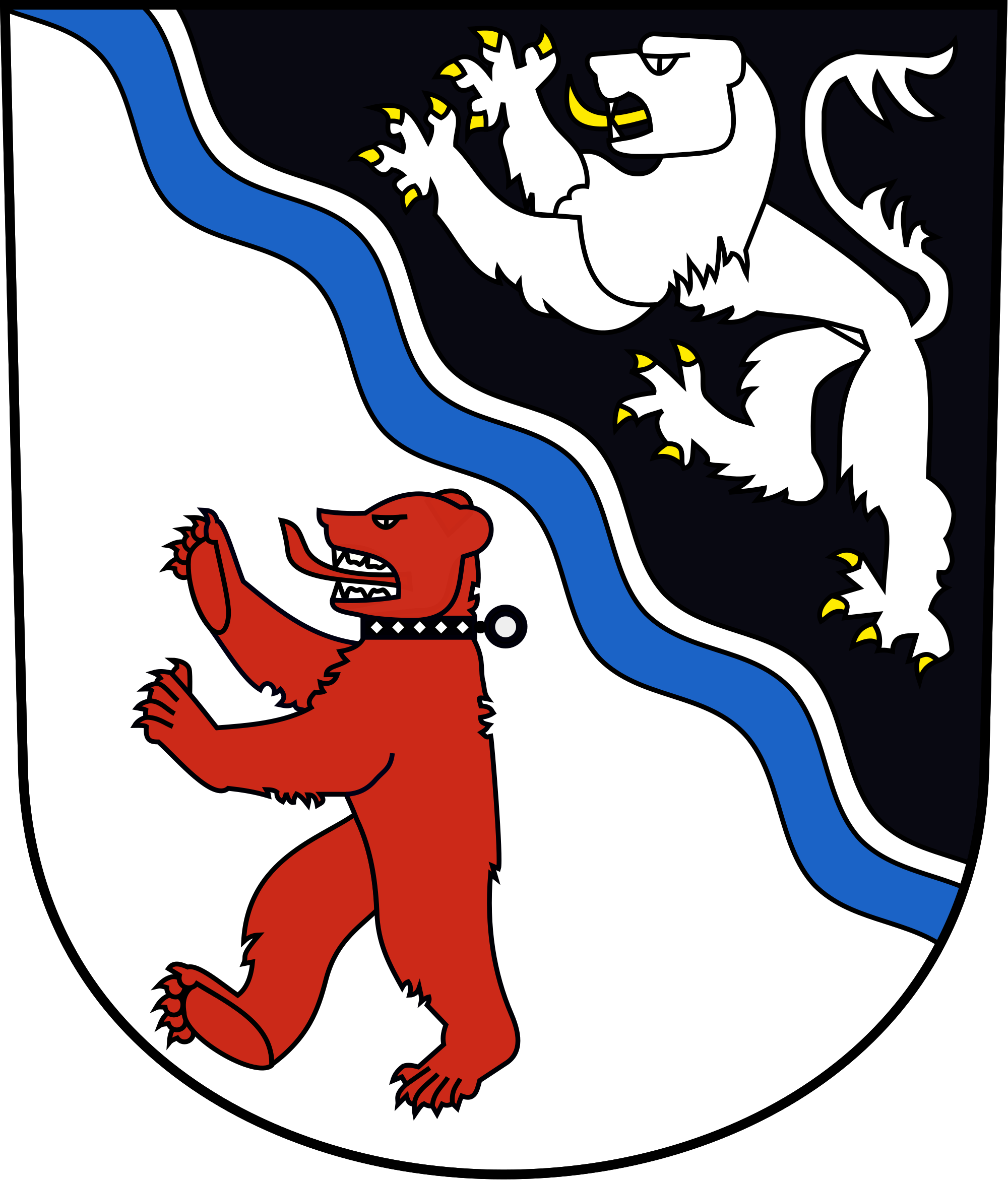 Blazon of Basadingen-Schlattingen, Canton of Thurgau, SwitzerlandEsperanto: Blazono de Basadingen-Schlattingen, Kantono Turgovio, Svislando